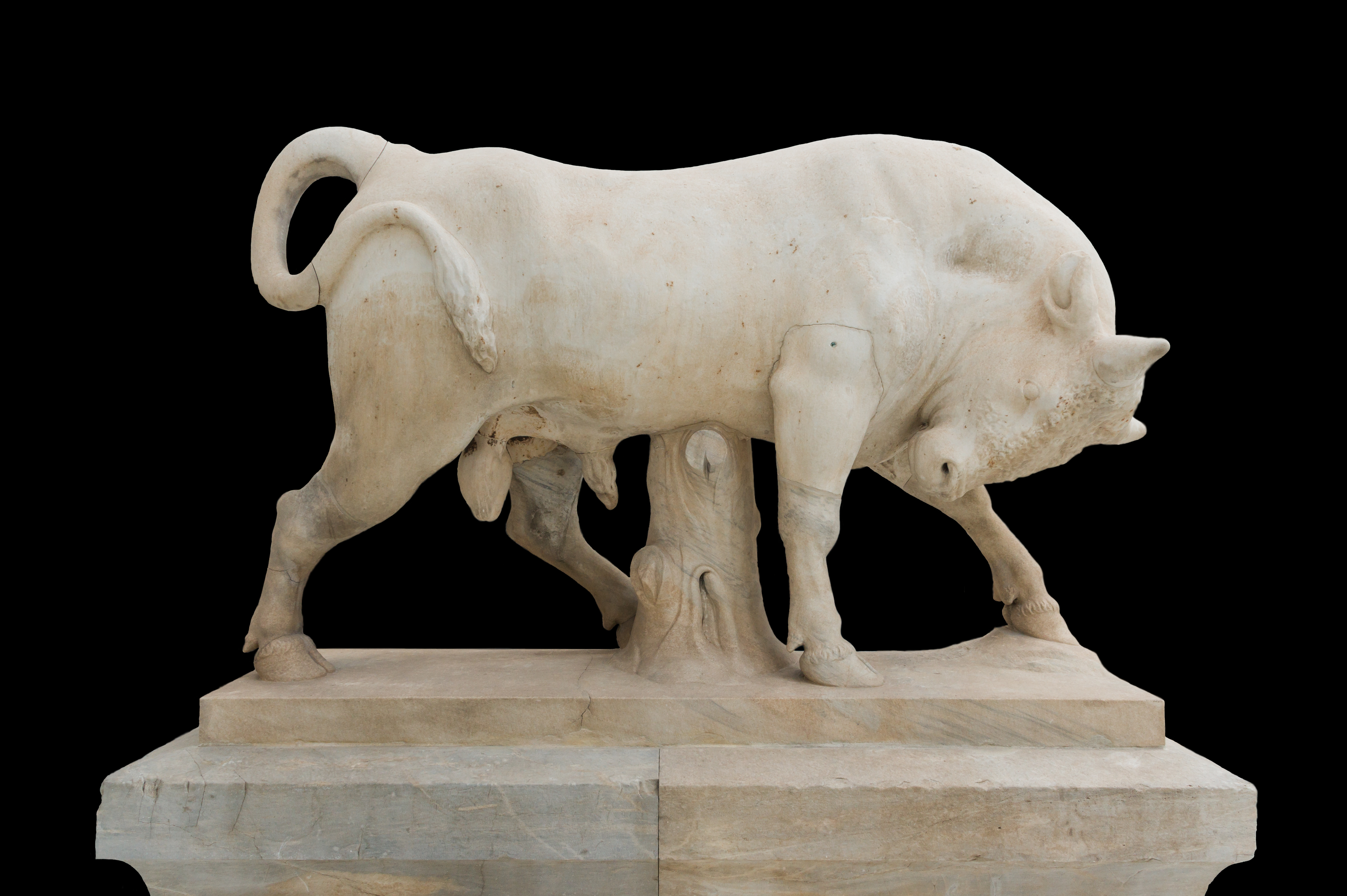 Bull from the grave enclosure of Dionysios of Kollytos, near the Way of the Tombs. The bull stood on a high pedestal in the middle of the grave enclosure, behind a naiskos on which were carved epigrams and the name and patronymic of the deceased, Dionysios, son of Alphinos. Dionysos, who died unmarried, lived in the deme of Kollytos, near the Kerameikos, and on the island of Samos where he served a treasurer of the Heraion, for the year 346/5 BCE. Marble, 345-340 BCE, Athenes, Greece.